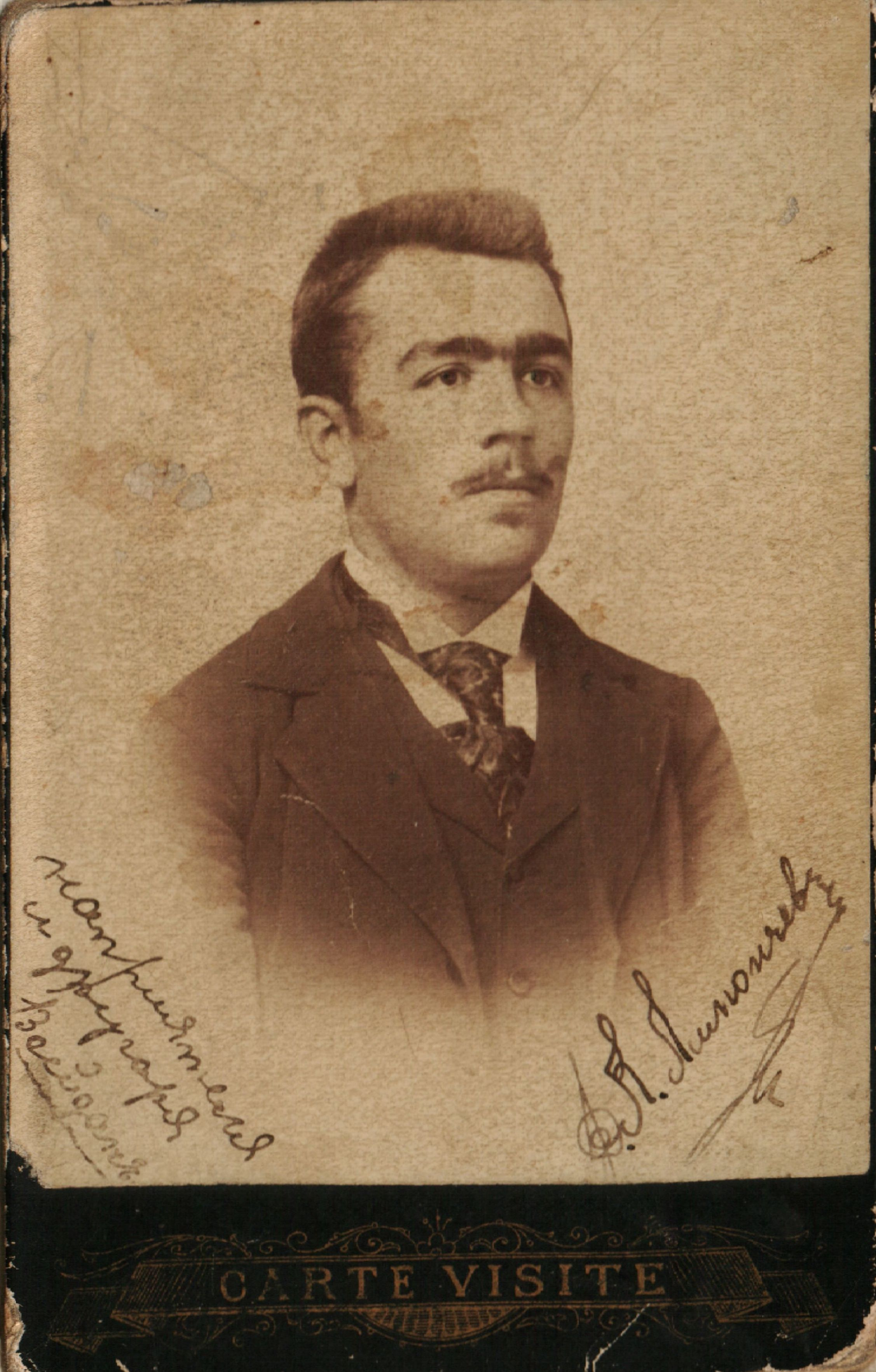 D. Limonchev